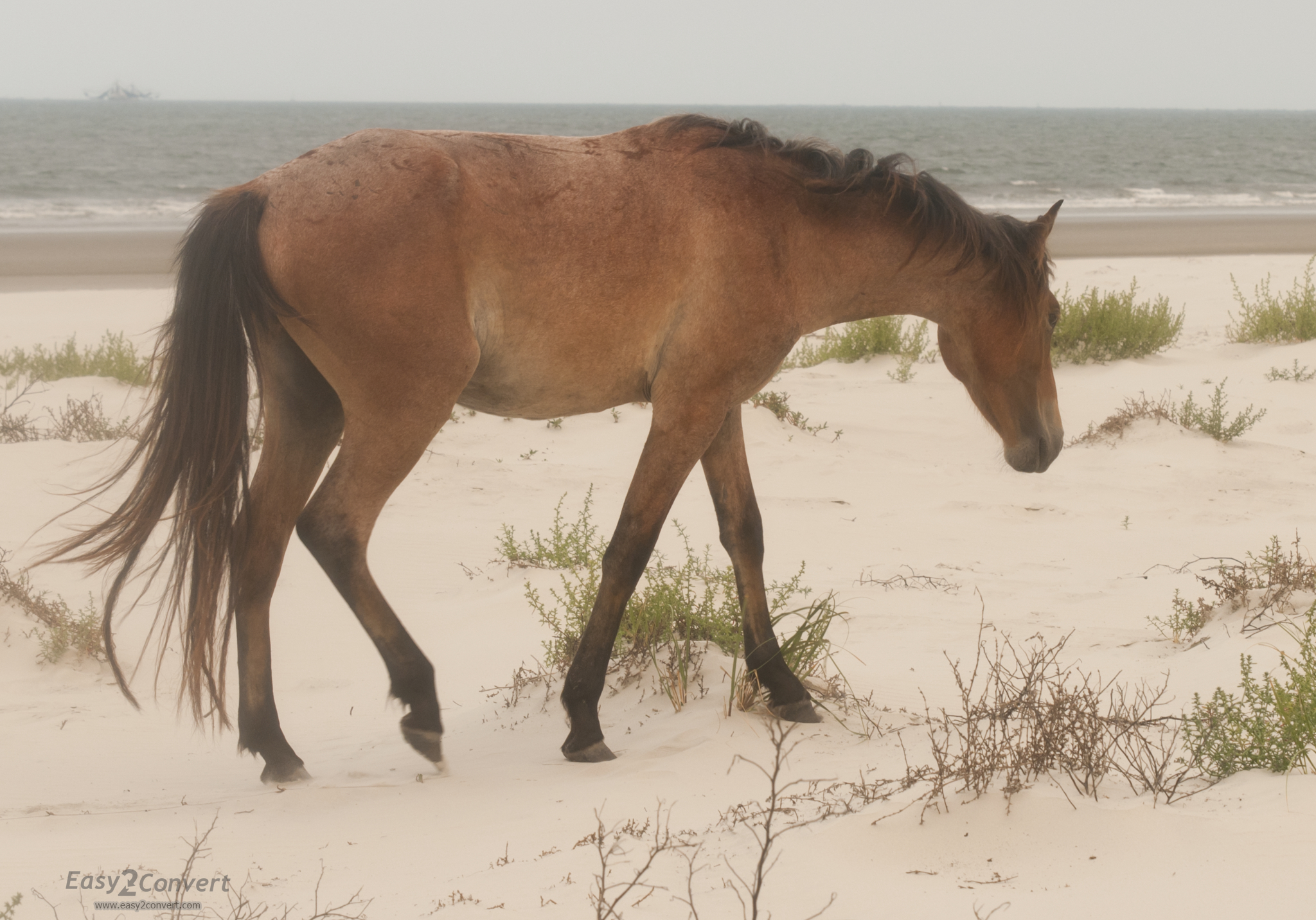 A wild horse crosses the dunes on Cumberland Island — in the Cumberland Island National Seashore, Georgia.